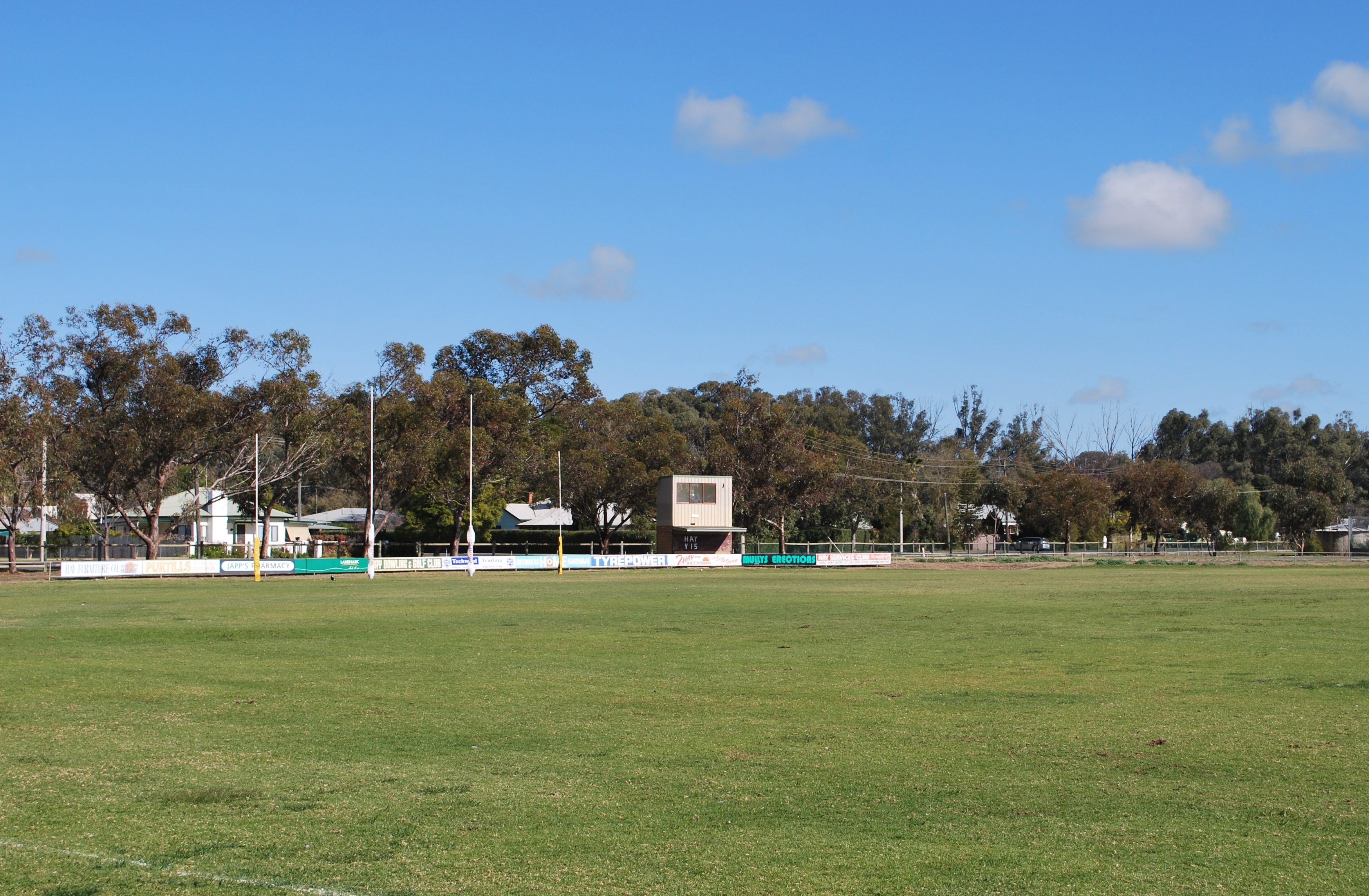 Australian rules football ground at Hay, New South Wales